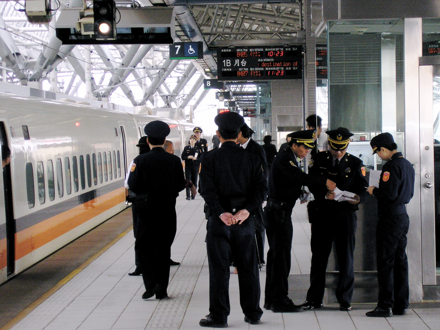 Railway Police officers on Platform 1B of Taiwan High Speed Rail Taichung Station, during public trial runs of the Taiwan High Speed Rail system.